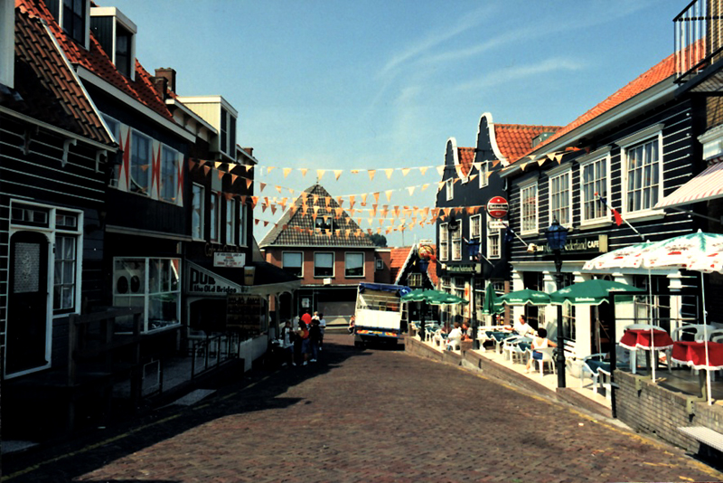 Volendam town, North Holland.荷兰福伦丹镇街道